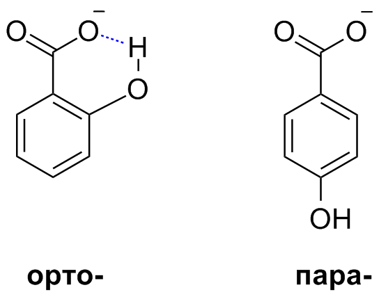 Hydrogen bond stabilization